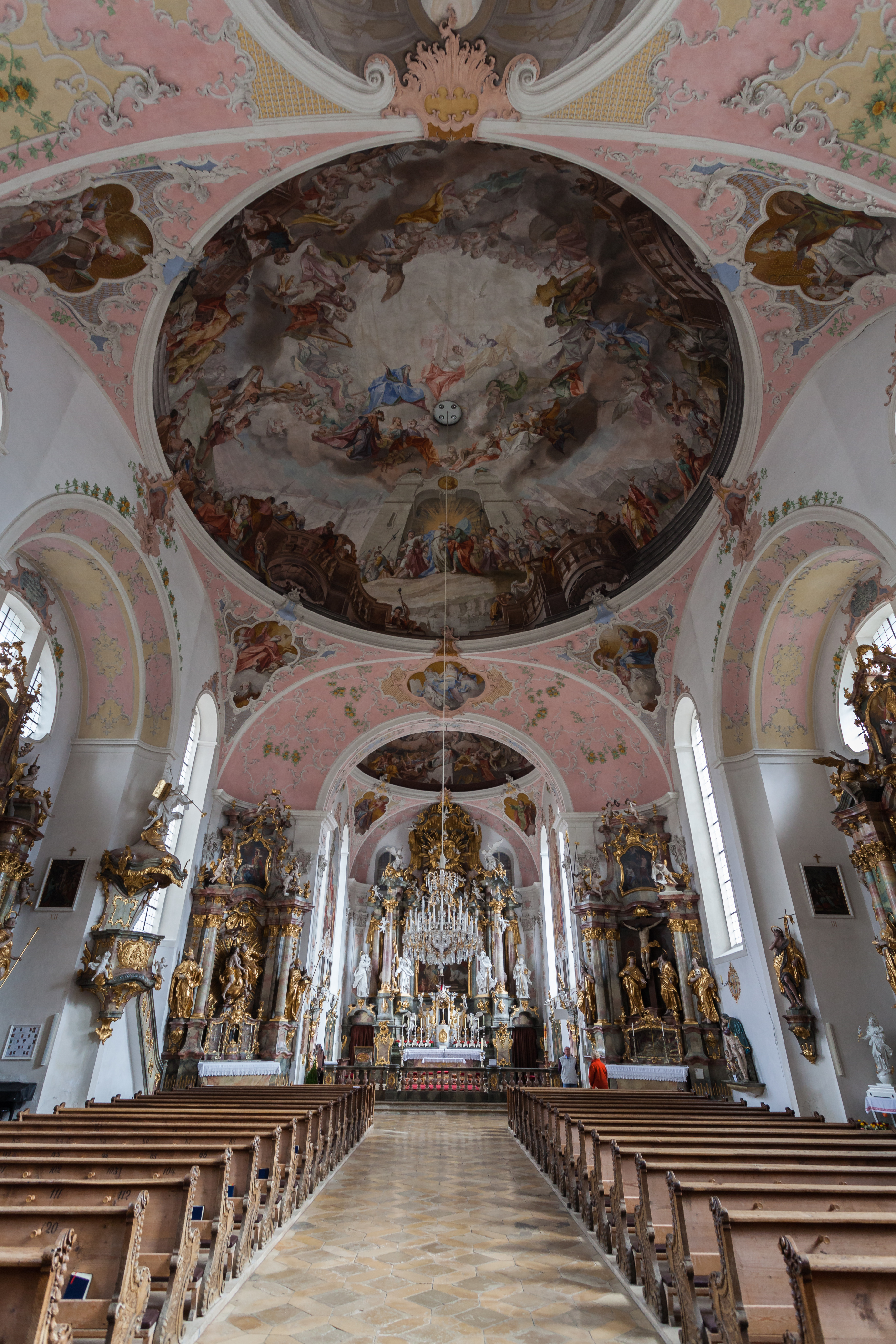 St. Peter and Paul church, Oberammergau, Bavaria, Germany